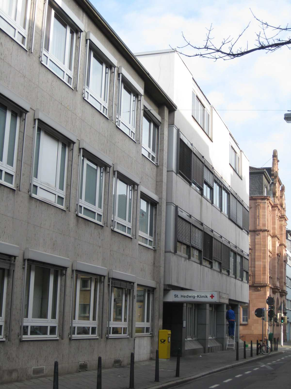 St.-Hedwig Hospital Mannheim